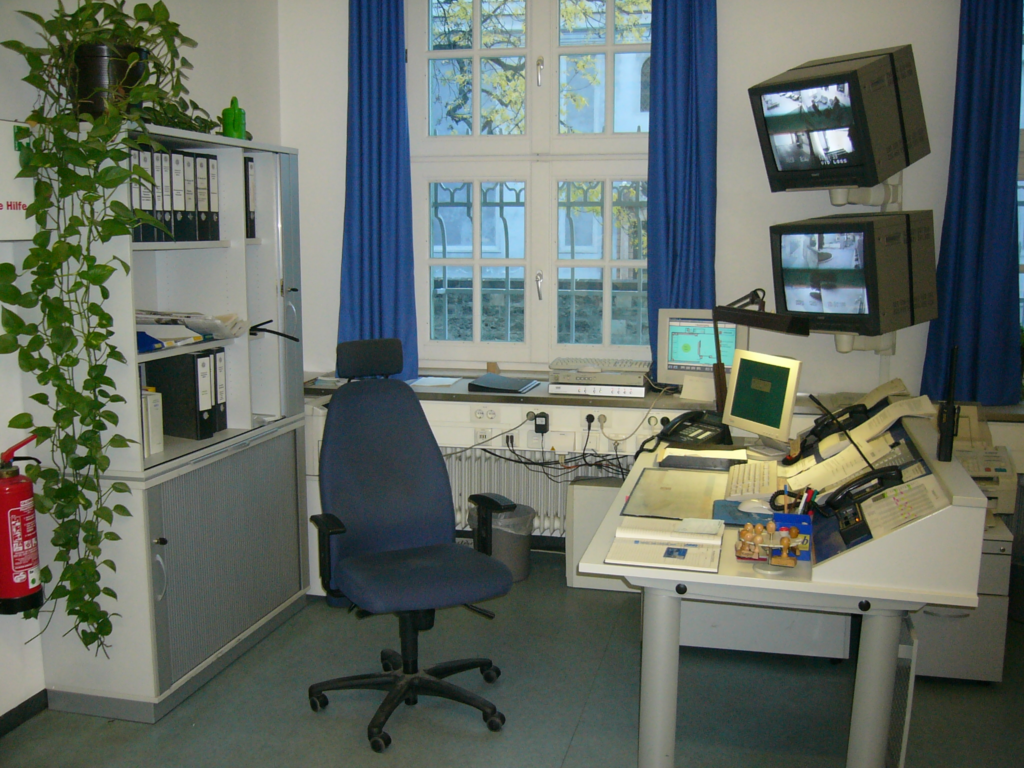 Desk of a Police sergeant in Munich, Germany